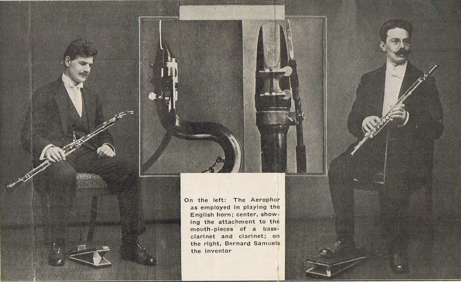 "On the left: The Aerophor as employed in playing the English Horn; center, showing the attachment to the mouth-pieces of a bass-clarinet and clarinet; on the right, Bernard Samuels the inventor"